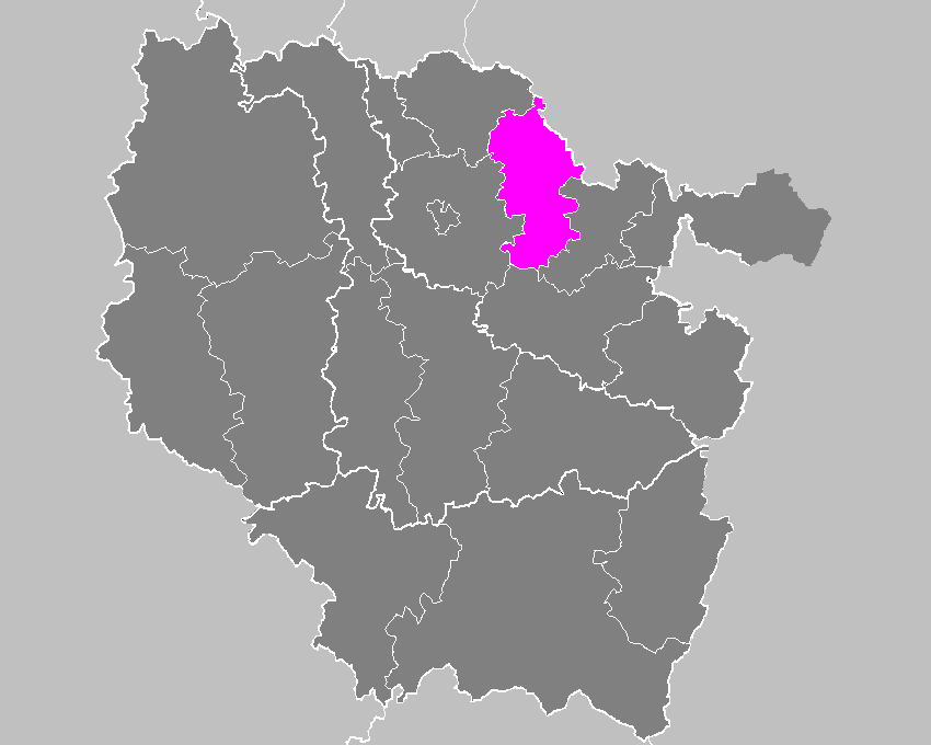 Maps of arrondissements and cantons of France: Arrondissement de Boulay-Moselle.PNG